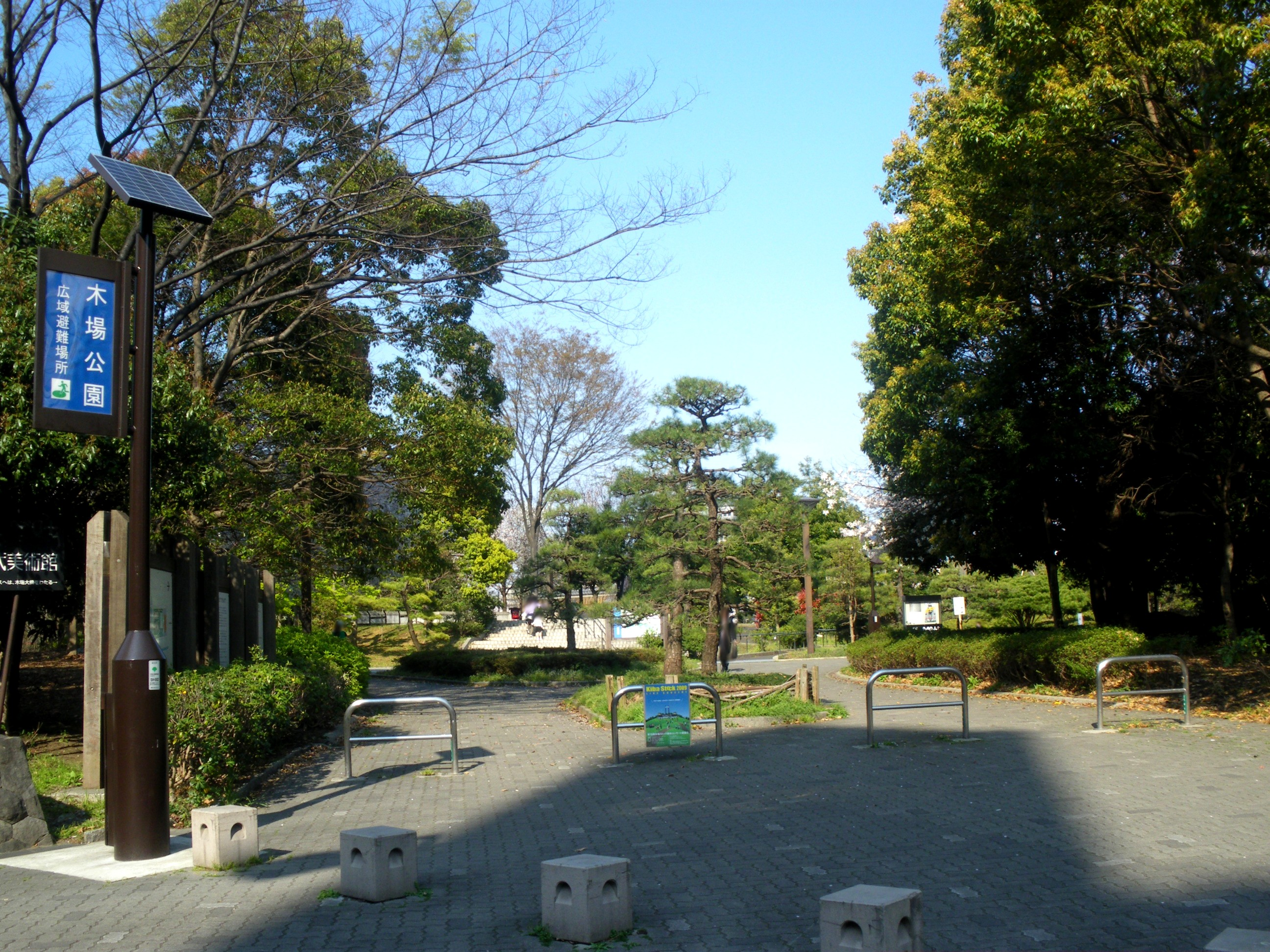 A photo of an entrance of Kiba Park, Koto-ku,Tokyo,Japan.